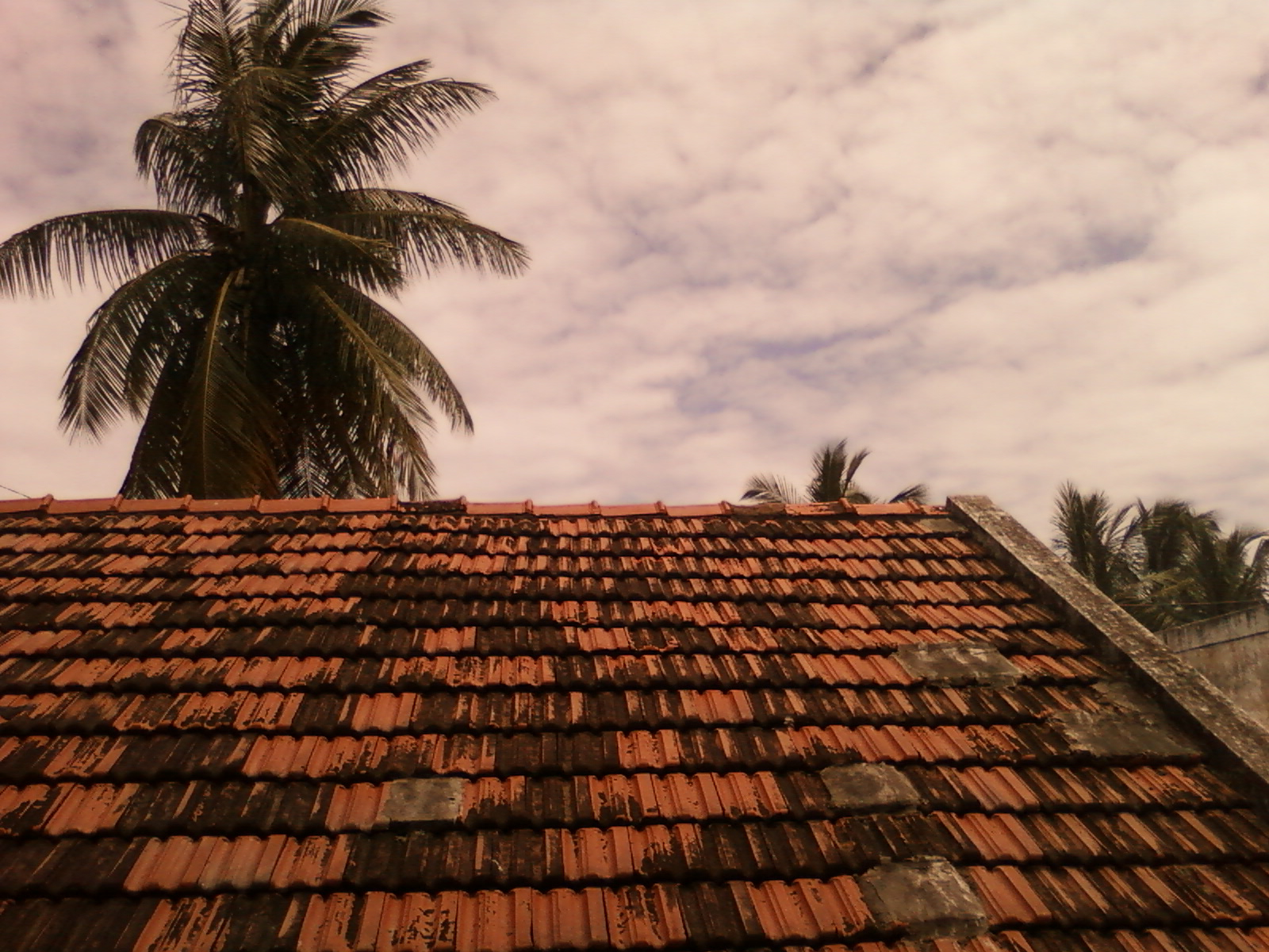 Roof of a House at Rajula Tallavalasa, Bheemunipatnam mandal, Visakhapatnam district